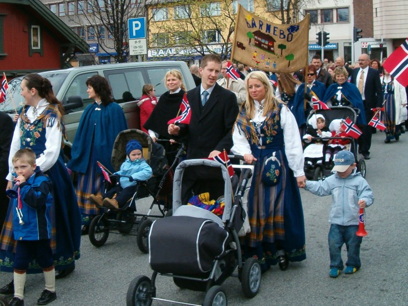 Norwegian Constitution Day celebration march in Narvik, Norway.